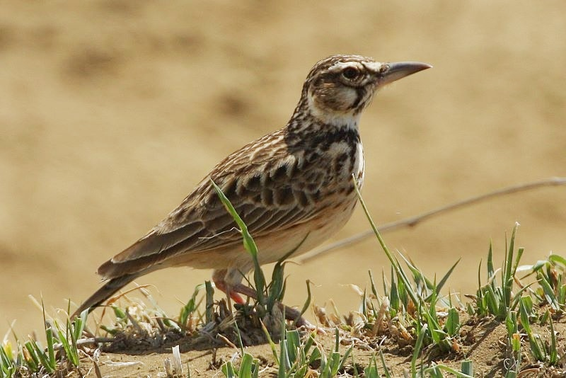 A Short-tailed Lark in Serengeti National Park, Tanzania, East Africa